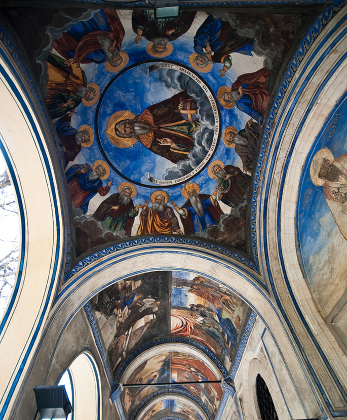 plovdiv church st Marina